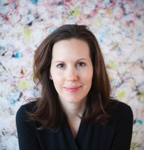 Author Photo